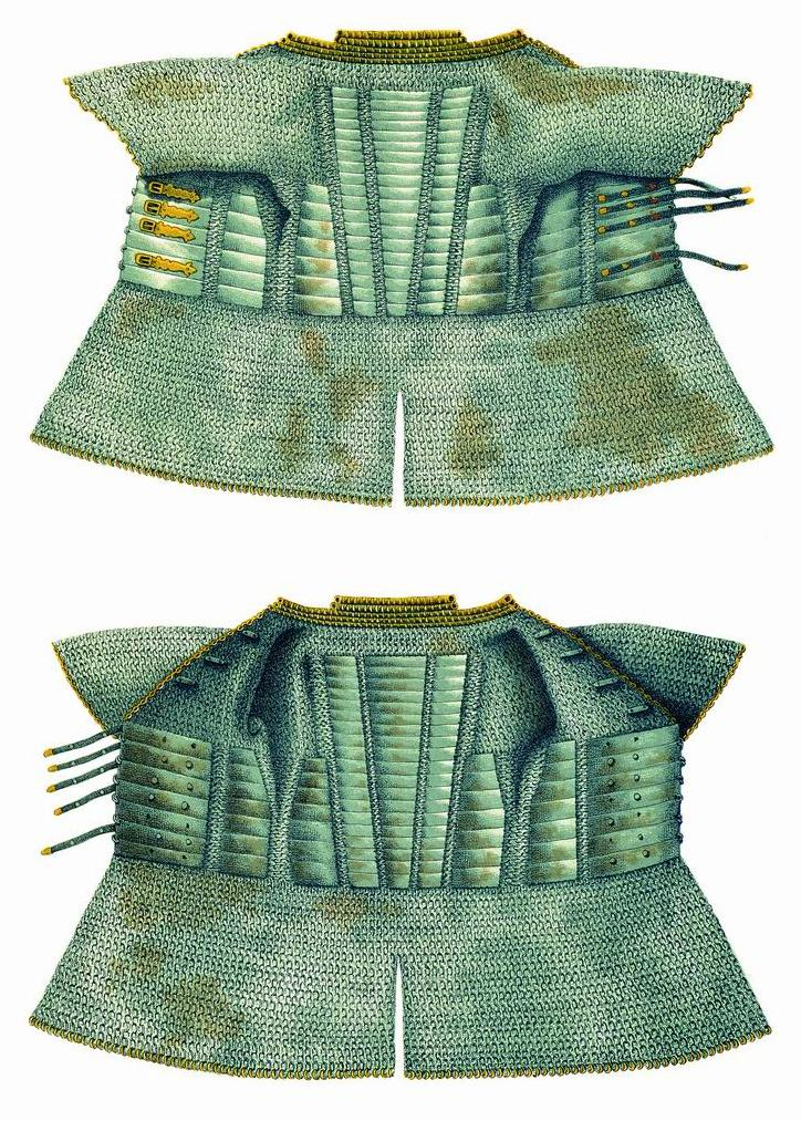 Yushman (reamer)